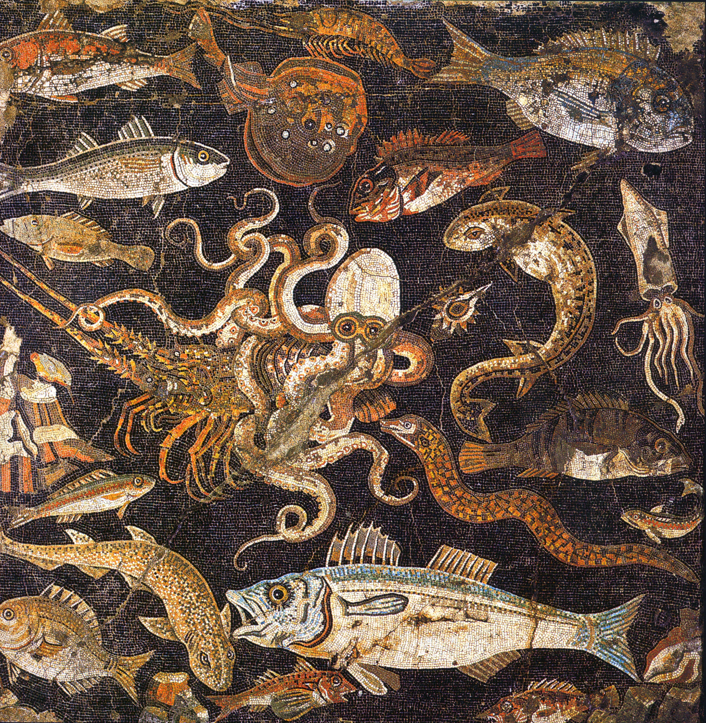 Roman mosaic from in house VIII.2.16 in Pompeii[1]. Museo Archeologico Nazionale (Naples), inv. nr. 120177